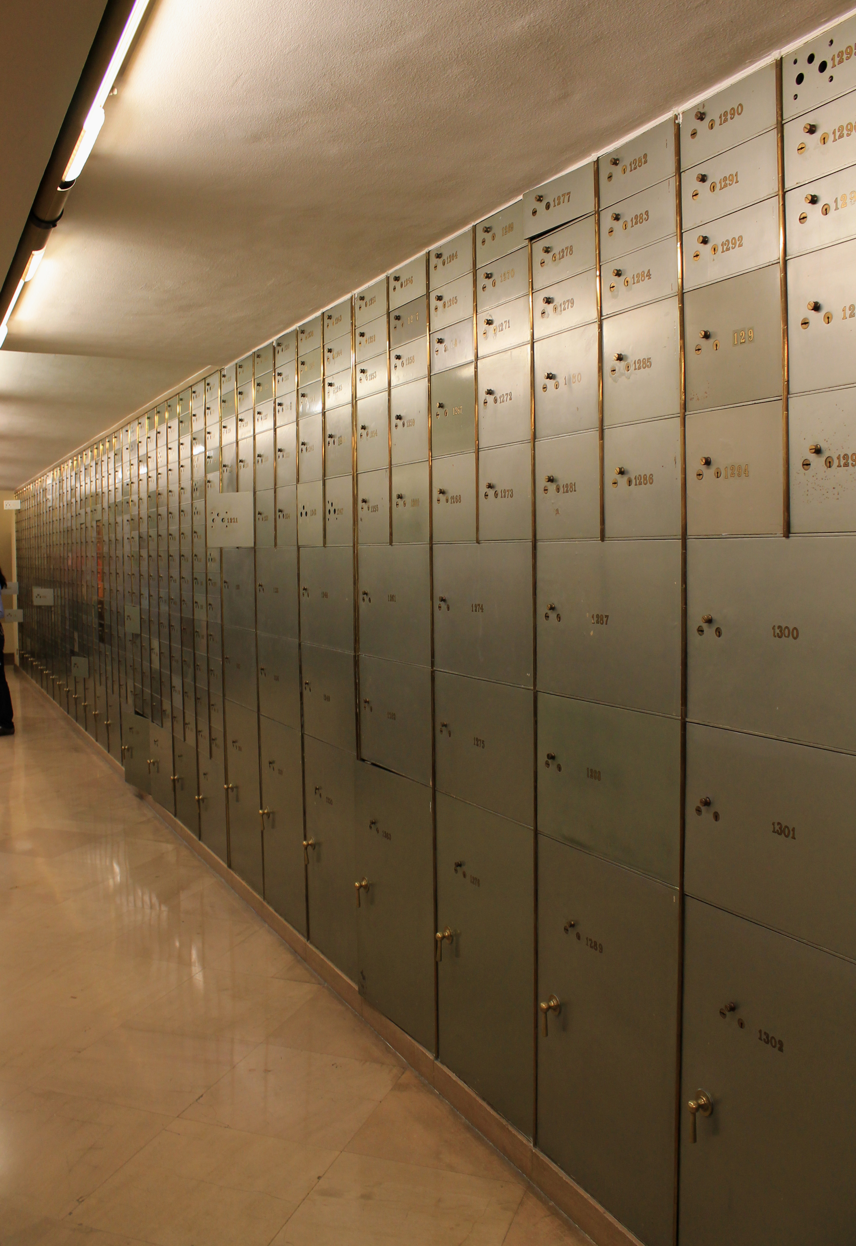 Interior of the so-named Caja de las Letras ("Letters' Vault") at the Cervantes Institute headquarters in Madrid (Spain), where there are the safe deposit boxes of the former Río de la Plata Bank building.